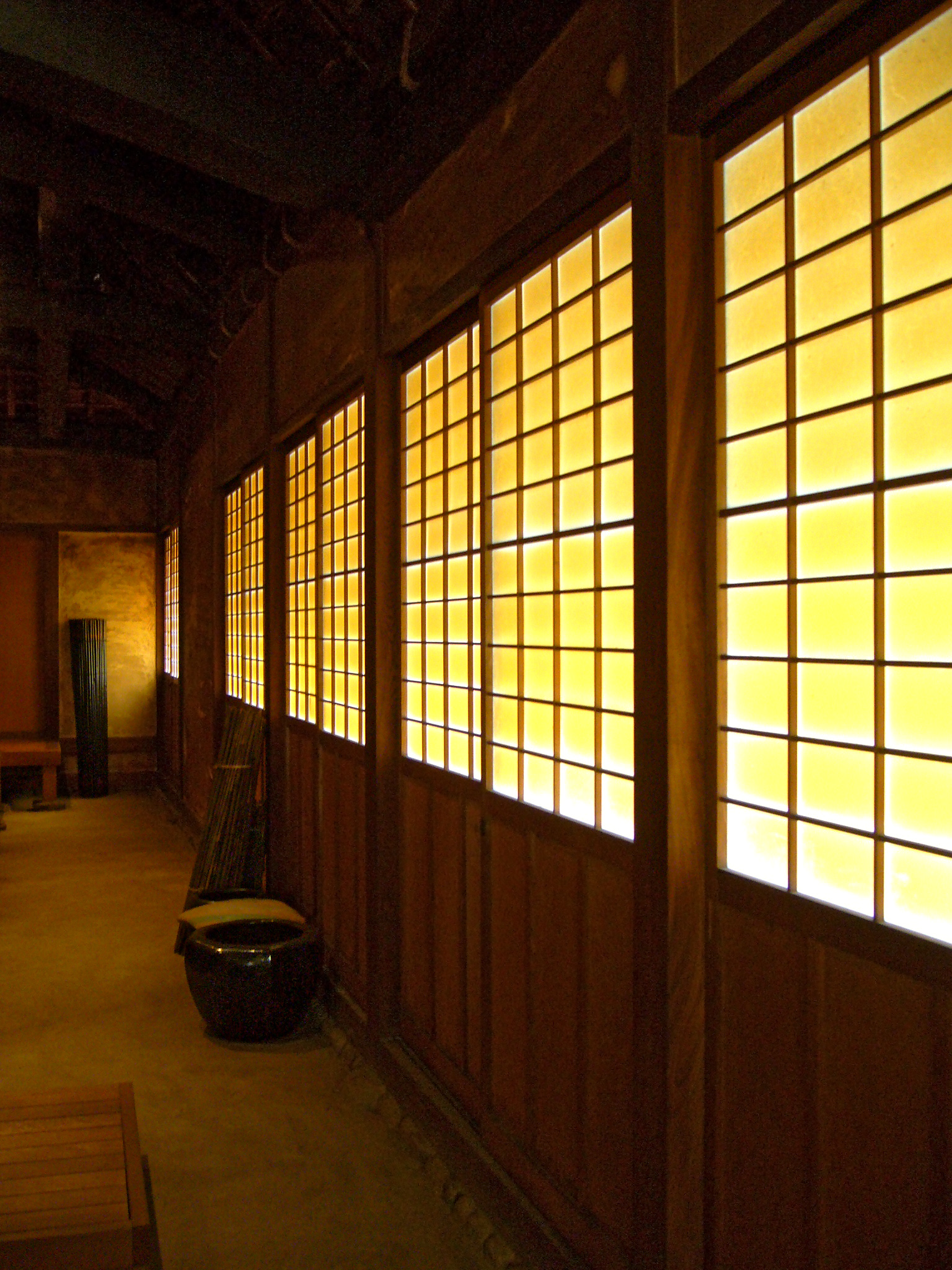 Anyoin of Taisanji in Kobe, Hyogo prefecture, Japan